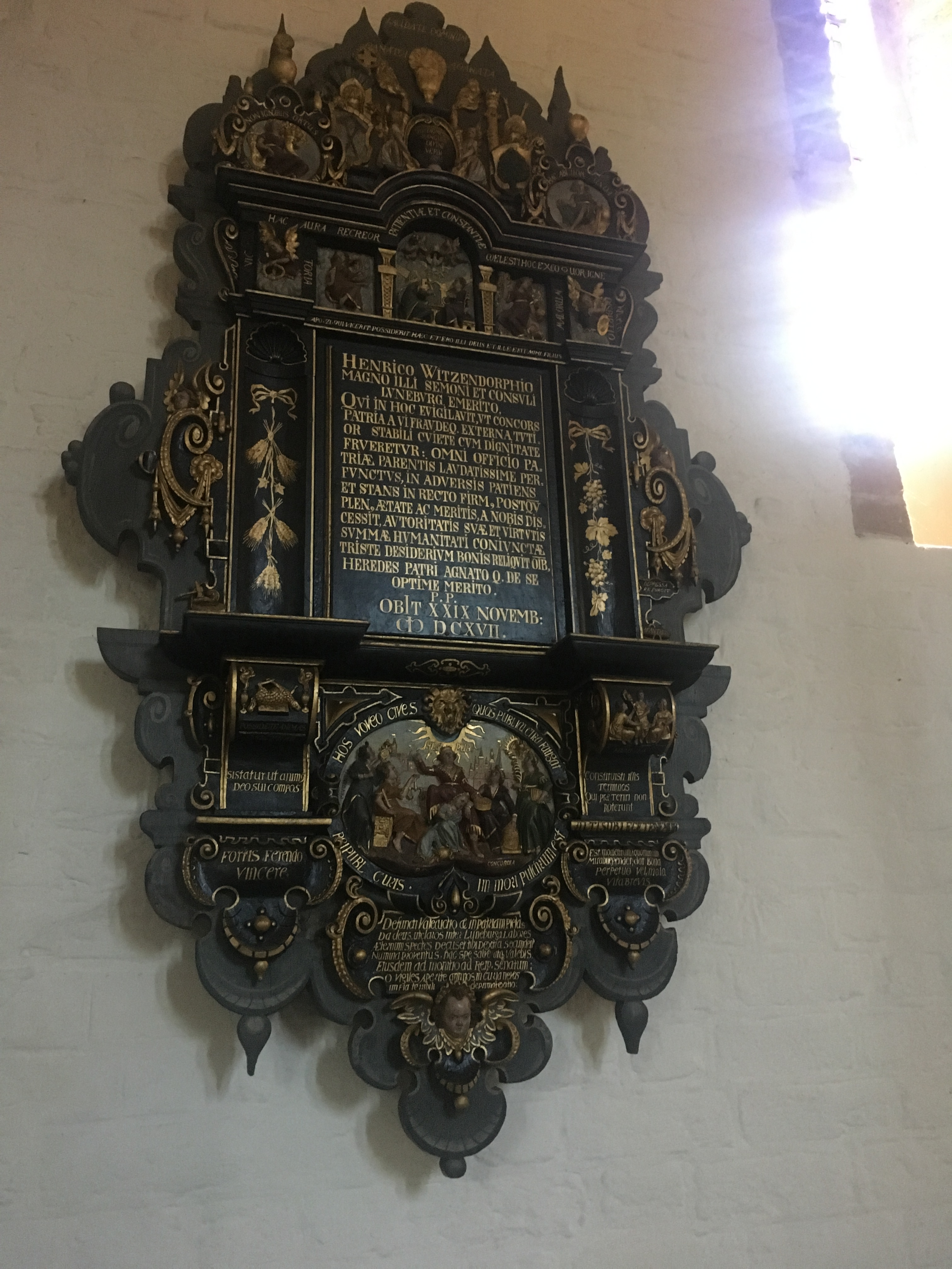 St. Clemens und St. Katharinenkirche (Seedorf)